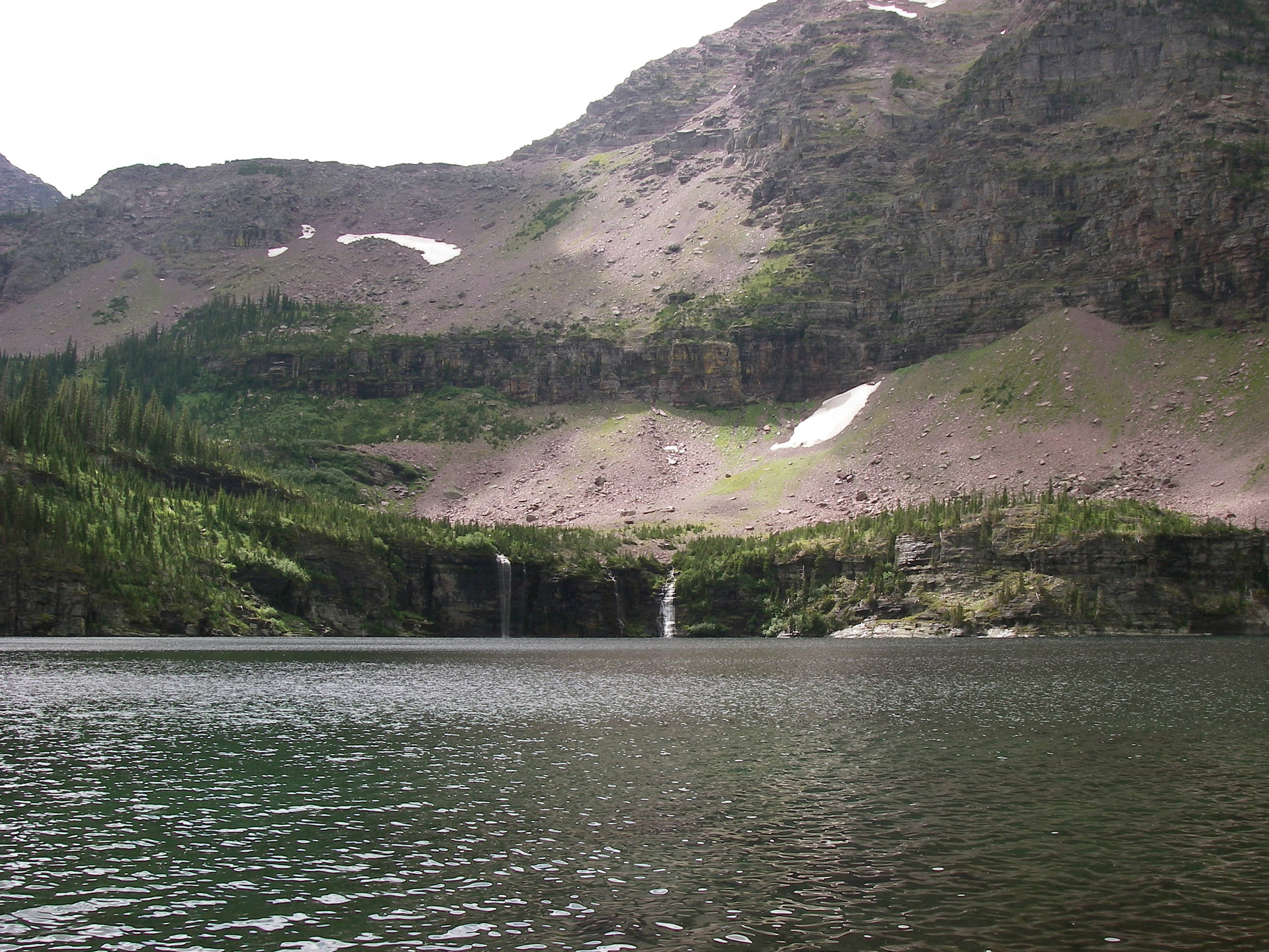 Buffalo Woman Lake at the foot of Eaglehead Mountain, Glacier National Park, Montana.